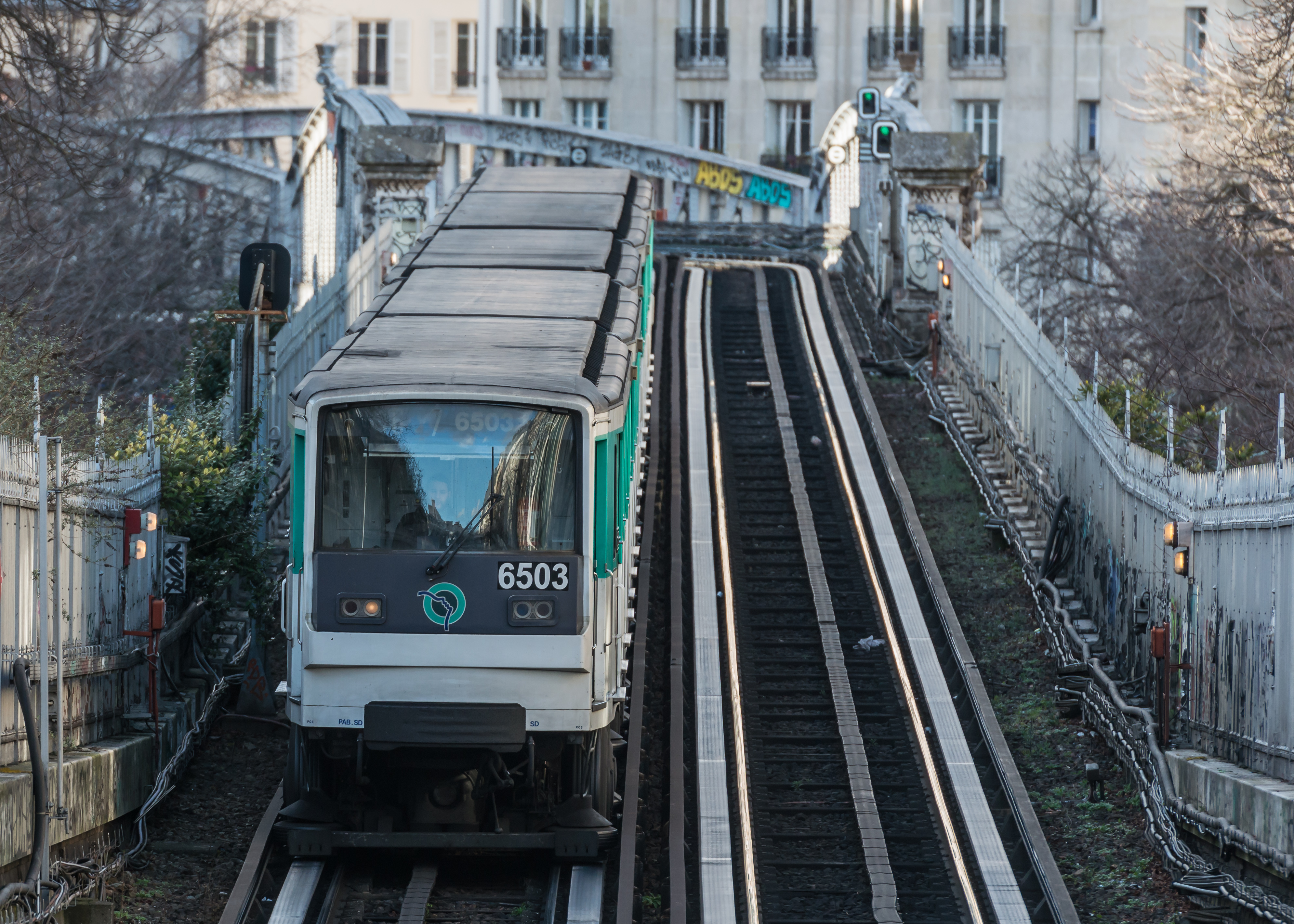 A Paris Metro Line 6 train, shortly before entering the Pasteur station